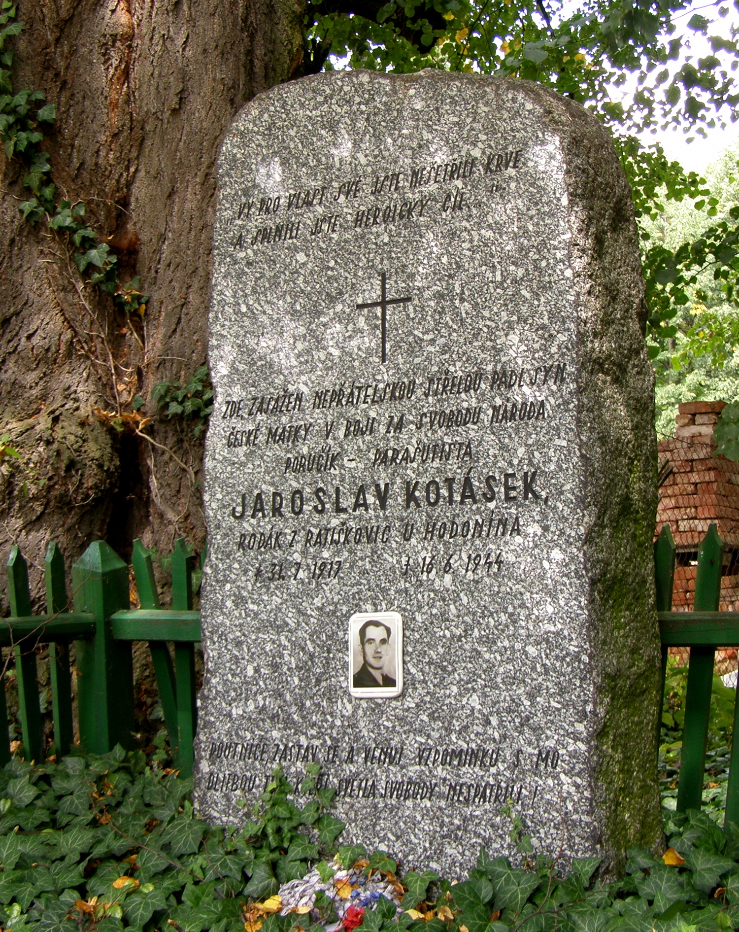 Myslibořice-Ostrý (‚Vostrý‘). Lt. Kotásek memorial near former gamekeeper's lodge